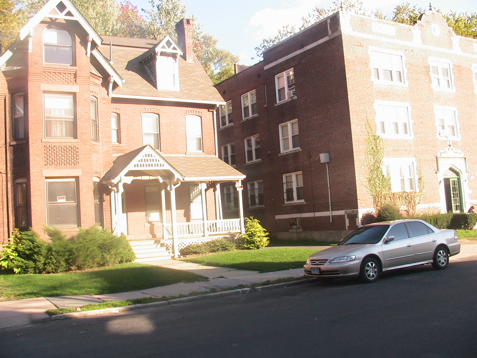 Taken in the North end of Hartford, 2006. Released to public domain.